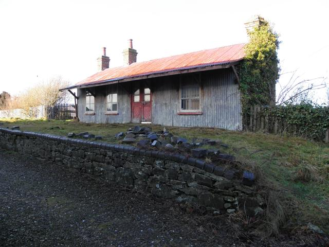 Ballymagorry Railway Station. It is still standing along the remaining section of platform - better buildings than this have long since vanished. It was the stop for the narrow gauge track that came from Strabane to Derry / Londonderry line and further along... more